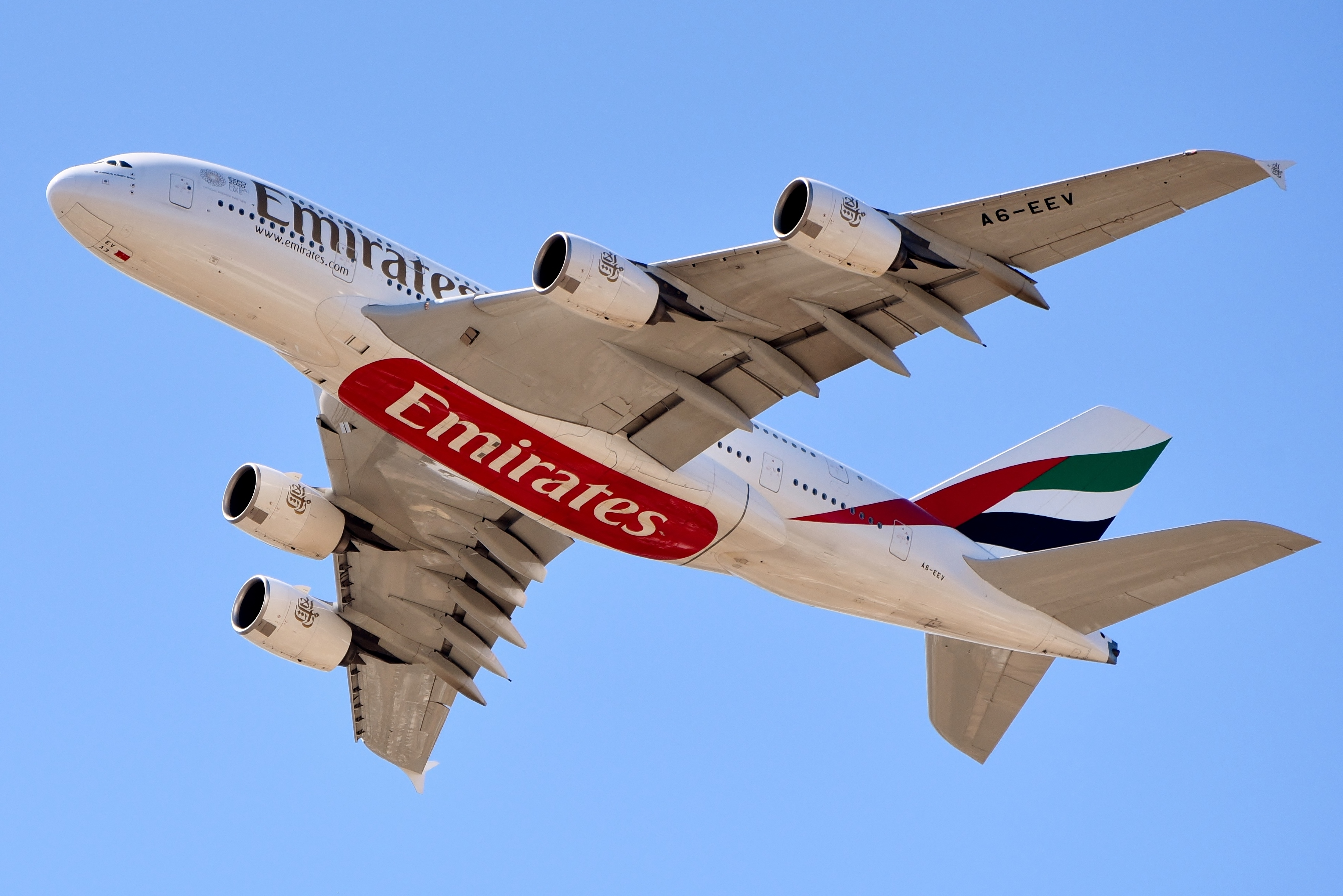 Emirates Airbus A380-861 A6-EEV taking off from Perth (PER/YPPH), Western Australia, after diverting there during a flight from Melbourne (MEL/YMML) to Dubai (DXB/OMDB) as EK409. Photo taken from Lilac Hill Park, Caversham, Western Australia. See also this YouTube video.